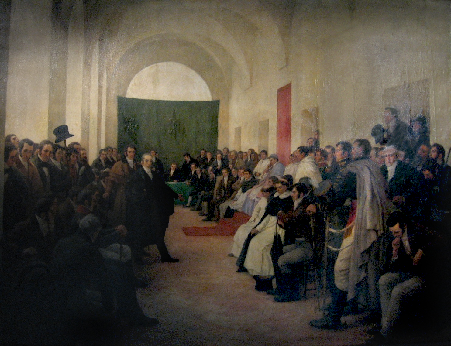 The "Cabildo Abierto" of may 22, 1810, in the city of Buenos Aires (now part of Argentina, then part of the Viceroyalty of the Río de la Plata), where it was decided to remove the viceroy Baltasar Hidalgo de Cisneros. Cleaned up blown relflective light from parts of image at request on request improvements pages. Took out levels and cuves a number of times to remove glare, then hand painted detail back in with fine digital brushes.